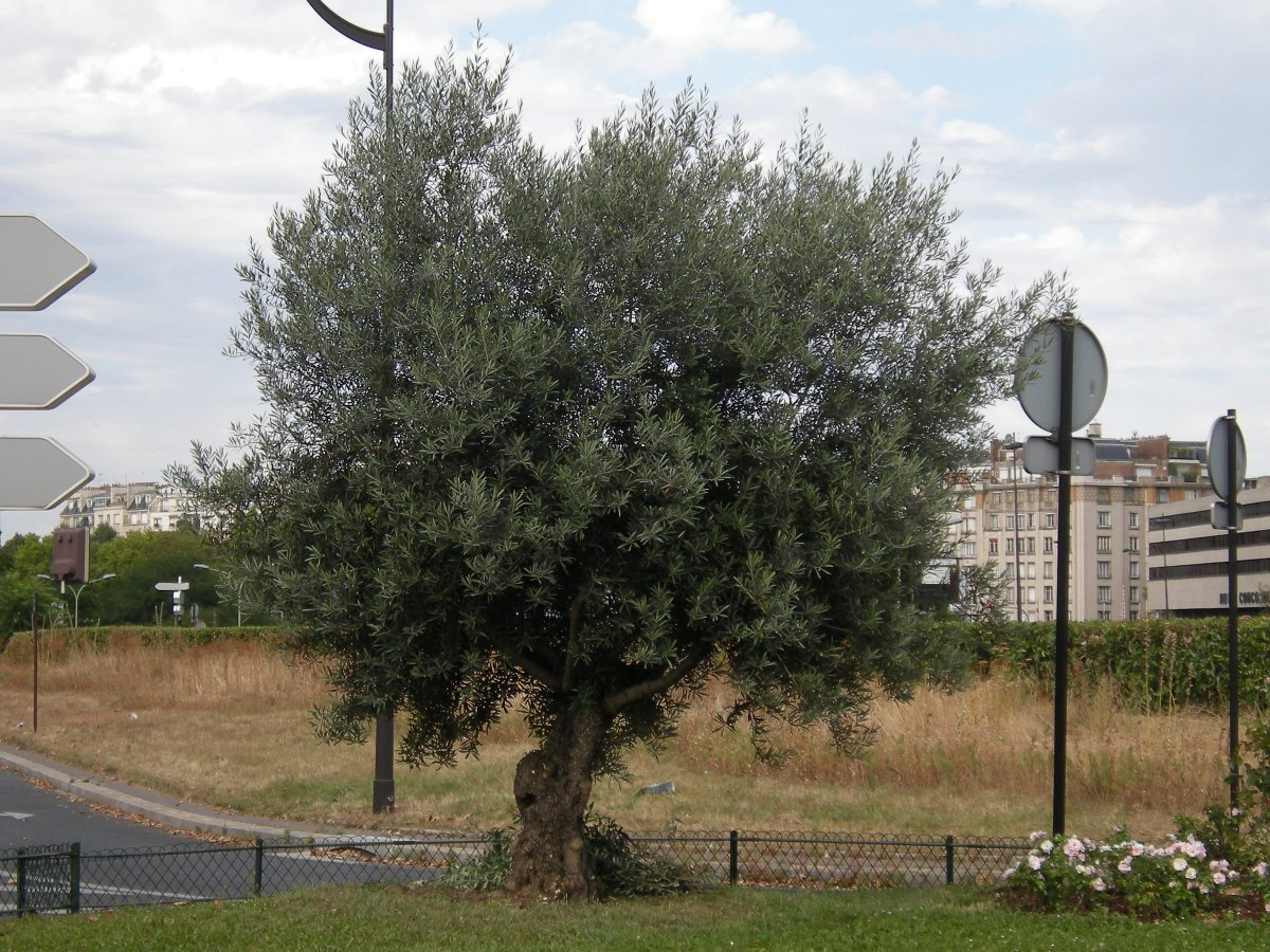 An ornamental olive tree near Porte Maillot, Paris, France